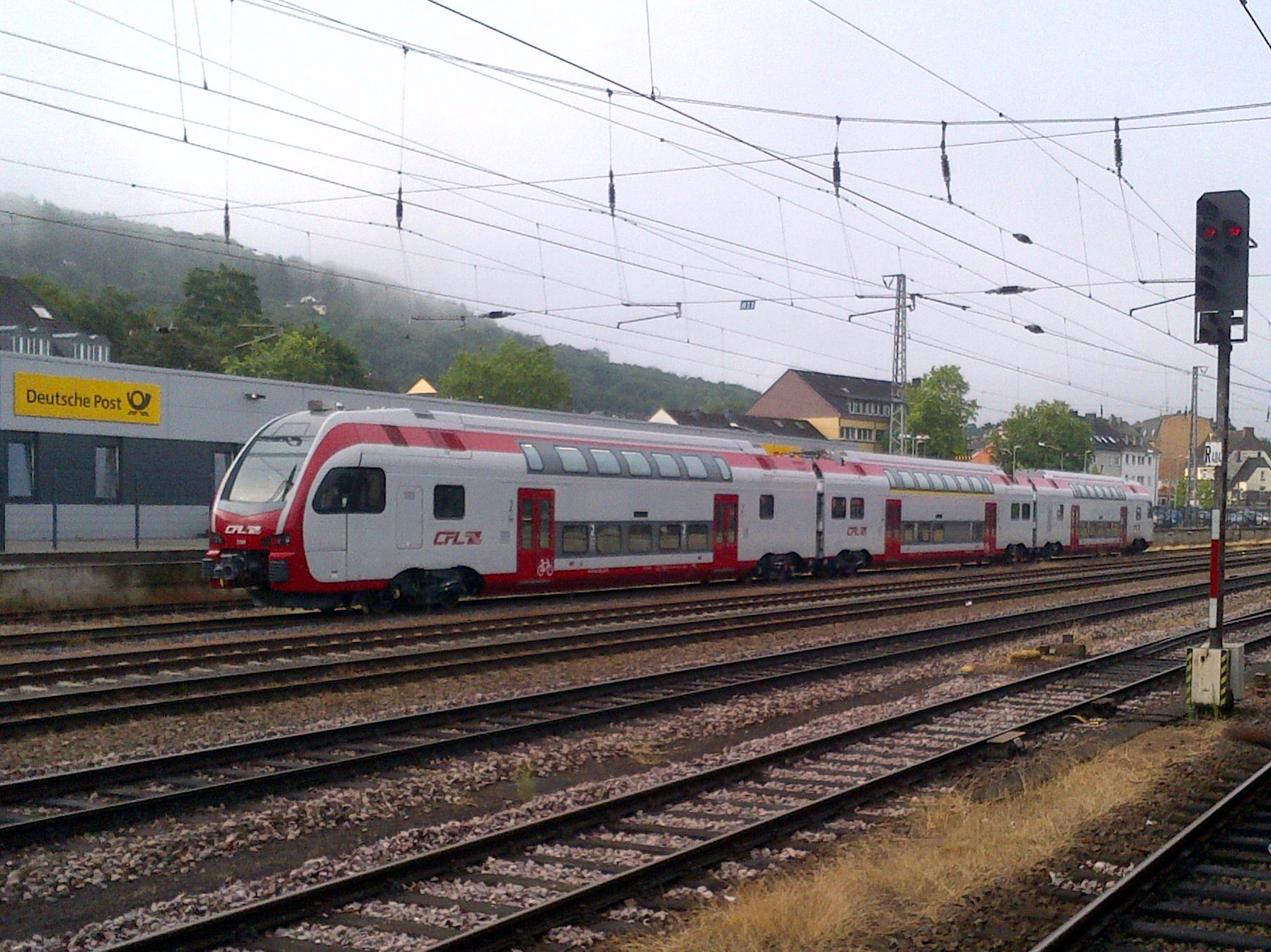 A Stadler KISS EMU of the Société Nationale des Chemins de Fer Luxembourgeois (CFL) at Trier Central Station, Germany.